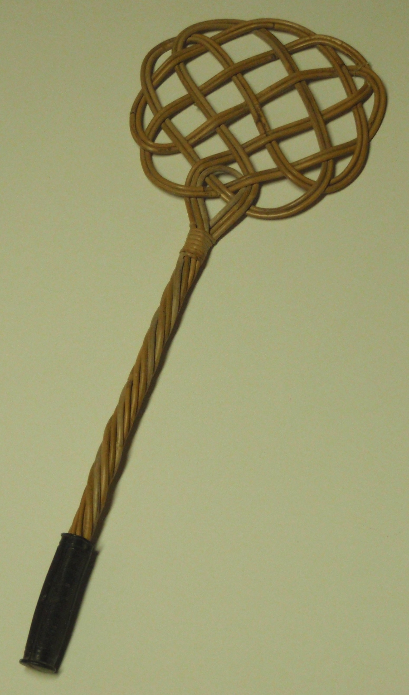 old fashioned carpet beater made of rattan